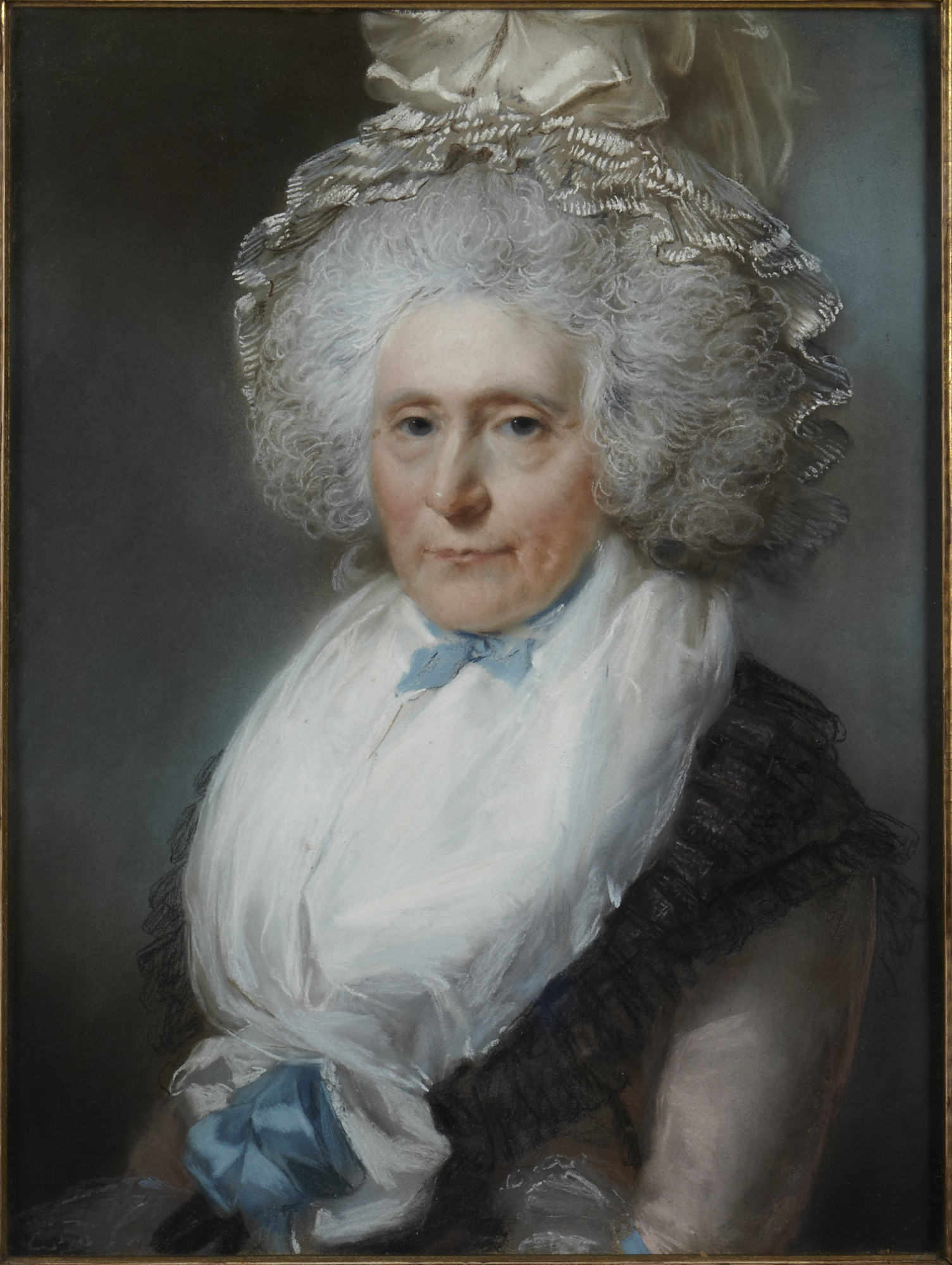 John Russell, British, 1745–1806 Mrs. Francis Willis Pastel 61 x 46 cm (24 x 18 1/8 in.) frame: 76.5 × 61.5 × 6 cm (30 1/8 × 24 3/16 × 2 3/8 in.) Bequest of Mrs. Marguerite L. Buckner, in memory of her late husband, Harry Bamberger x1975-222 The information shown has not been approved by a curator.